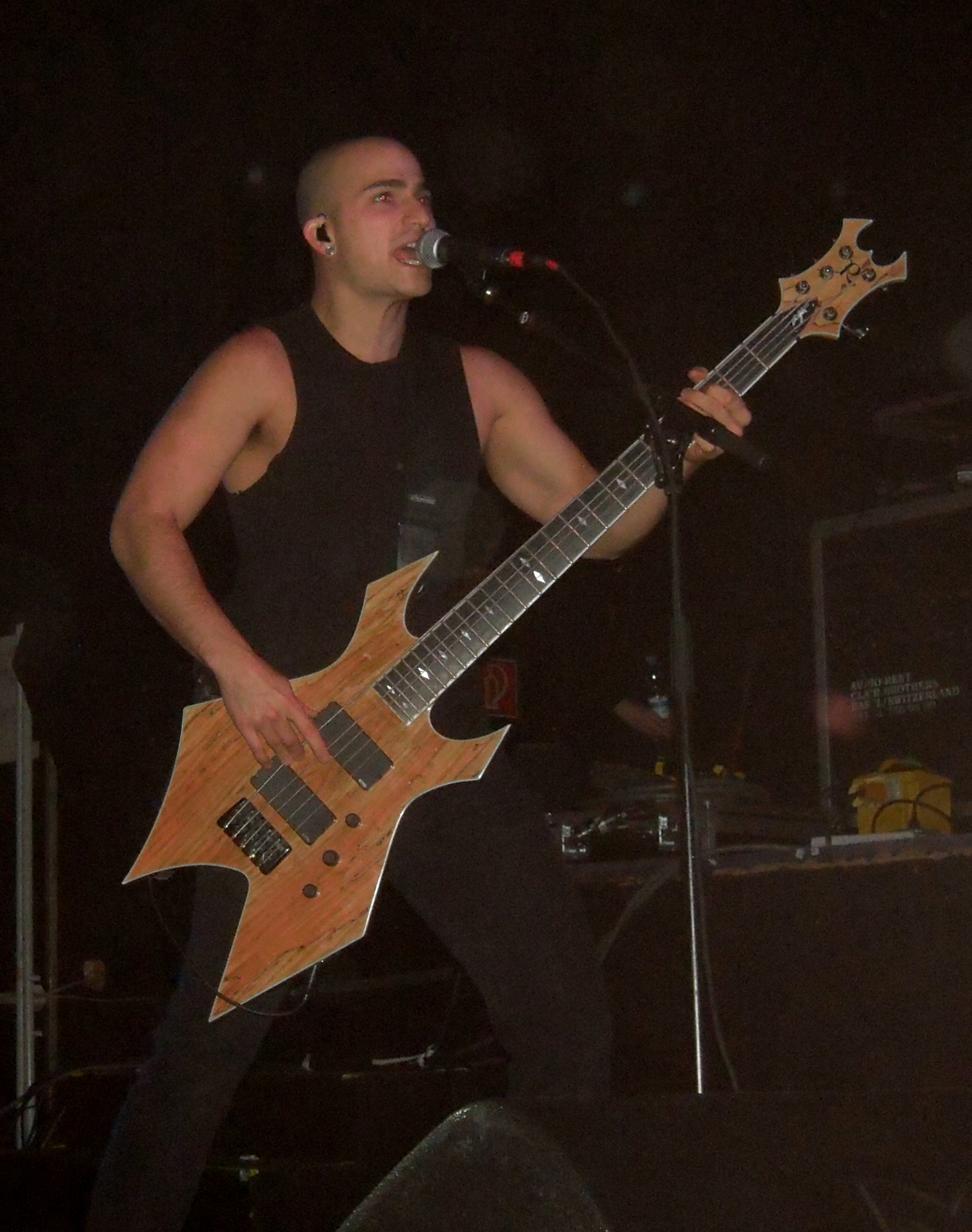 Paolo Gregoletto on a concert in Hamburg